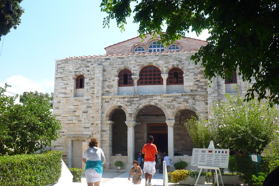 Panagia Ekatontapyliani